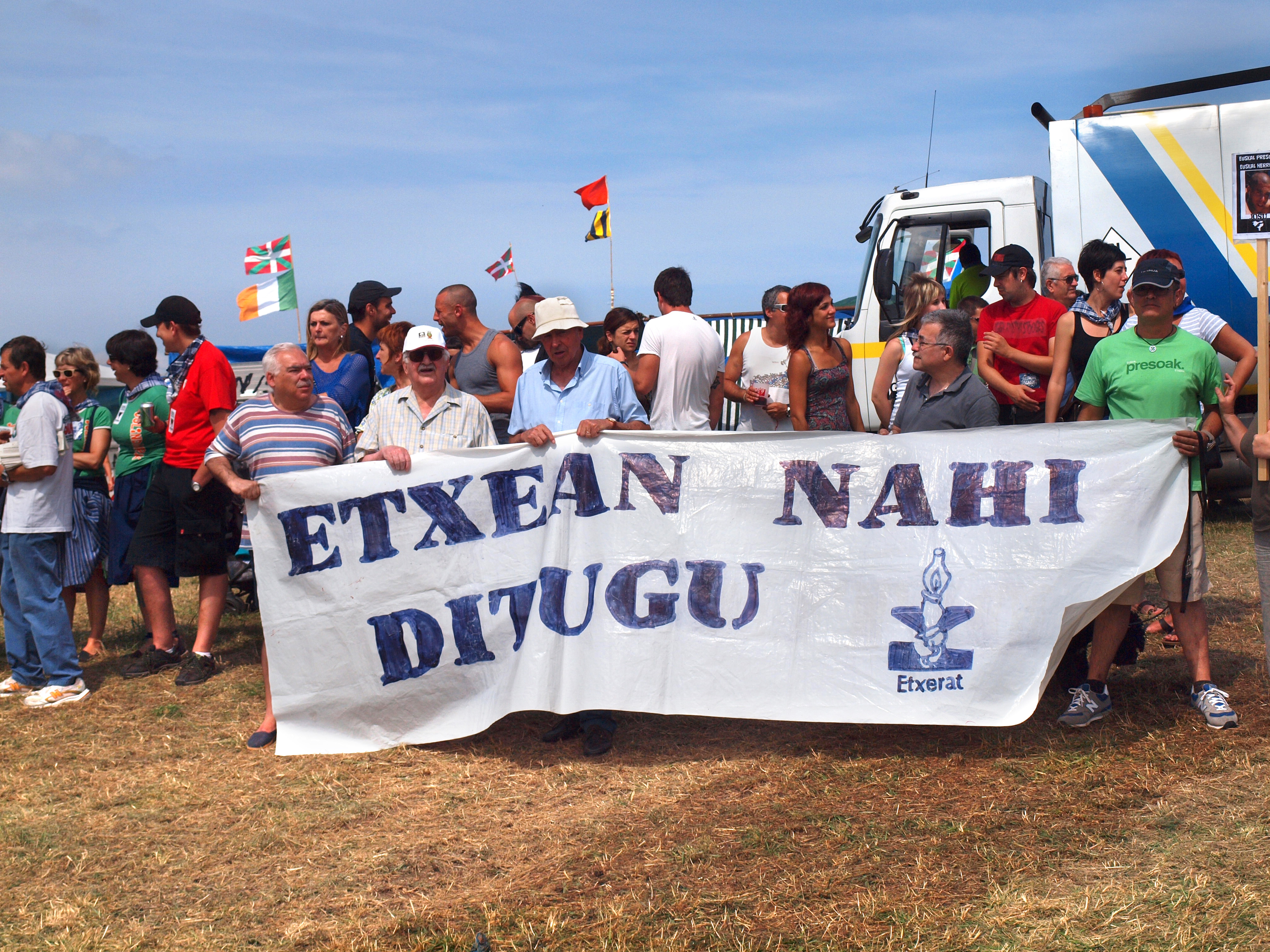 "We want them home". Claimnig for Basque prisoners freedom.